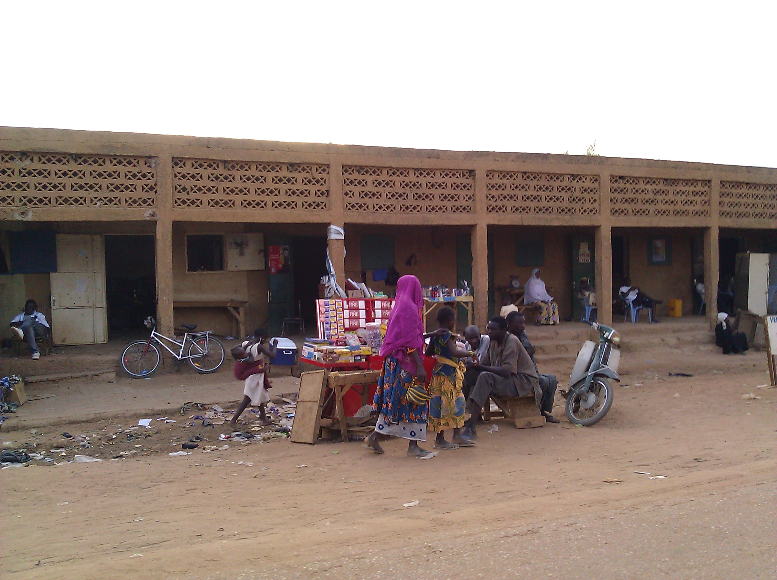 The streets of Niamey